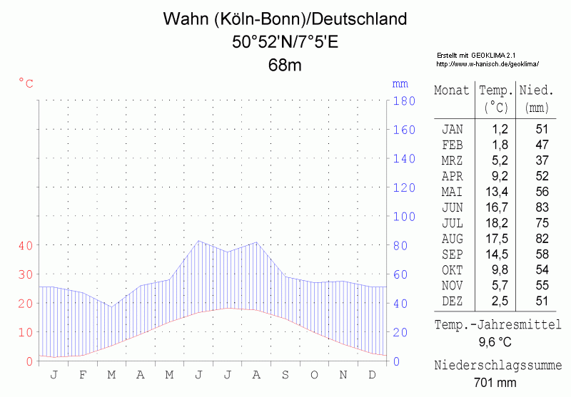 climate chart in the format by Walther and Lieth, metric, °Celsisus and millimeters, made with Geoklima 2.1